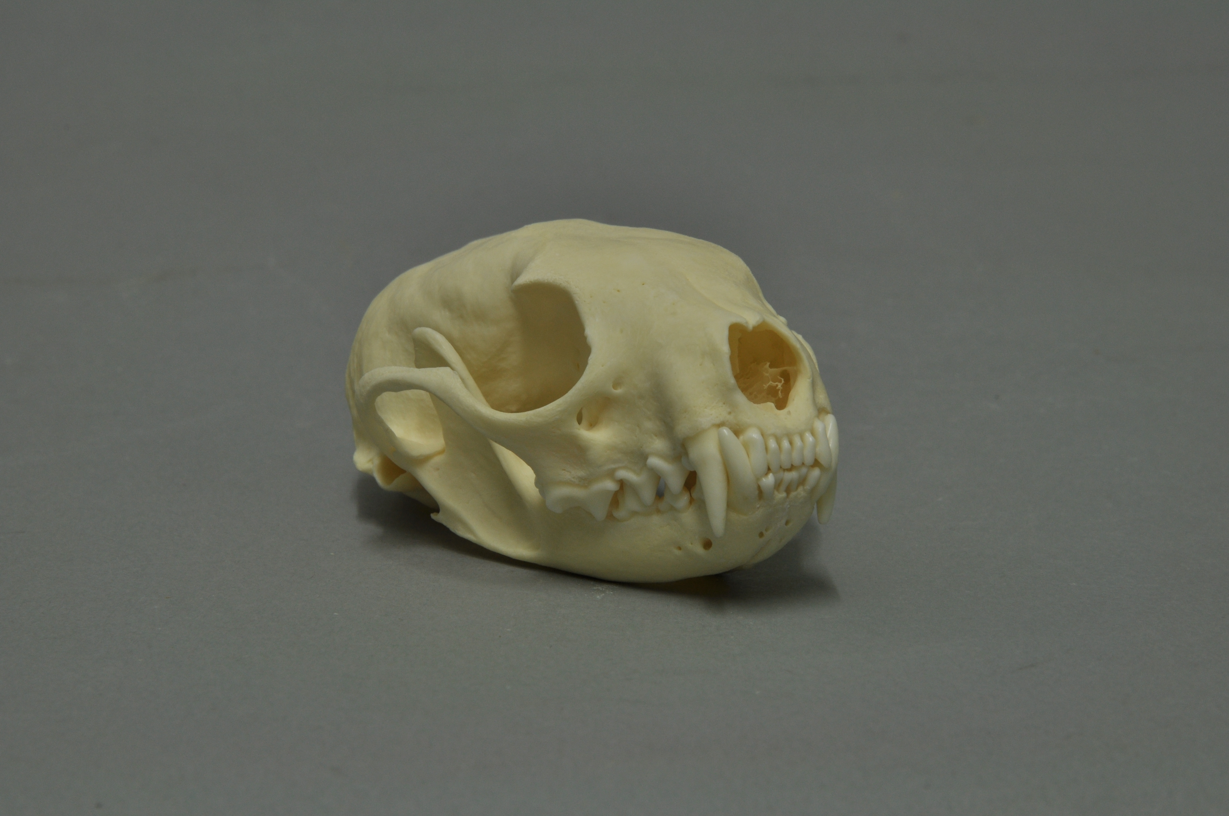 Beech marten Martes foina , skull, Coll. Museum Wiesbaden